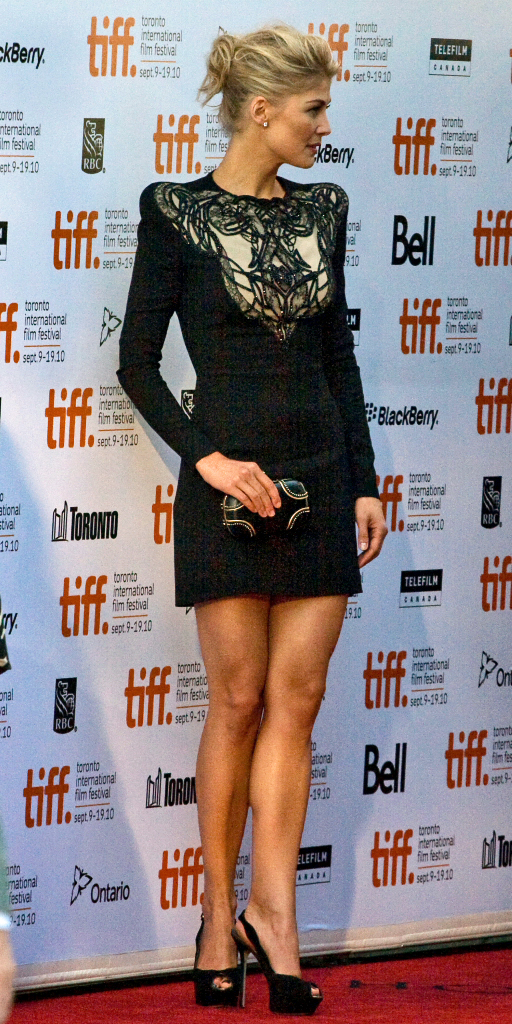 An English actress Rosamund Pike at the premiere of "Barney's Version" directed by Richard J. Lewis, during the Toronto International Film Festival, 2010.